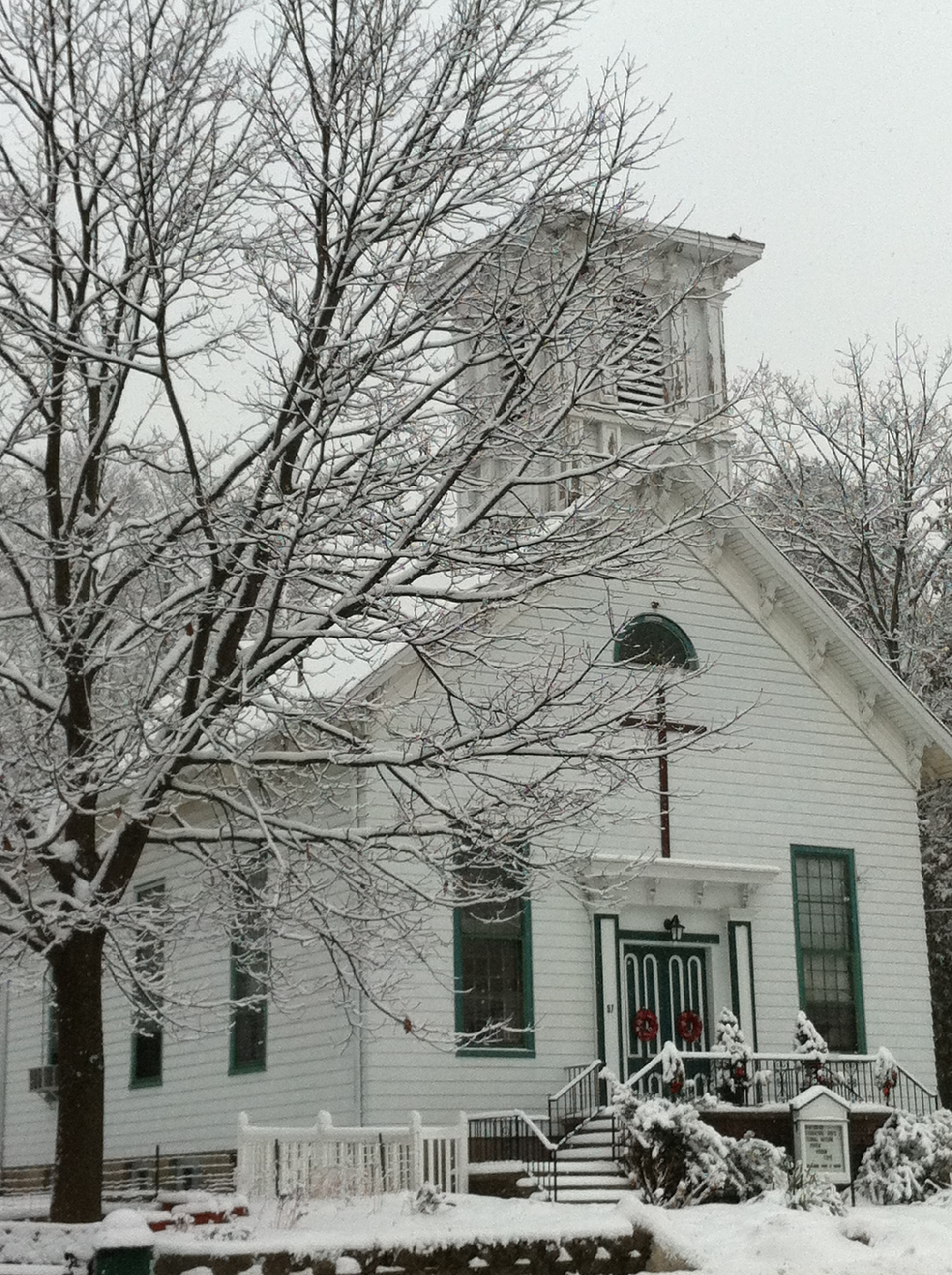 A photograph of New Hope Christian church from the winter of 2011